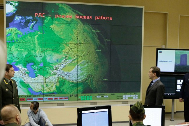 Dimitry Medvedev visiting the Voronezh-DM radar in Kaliningrad